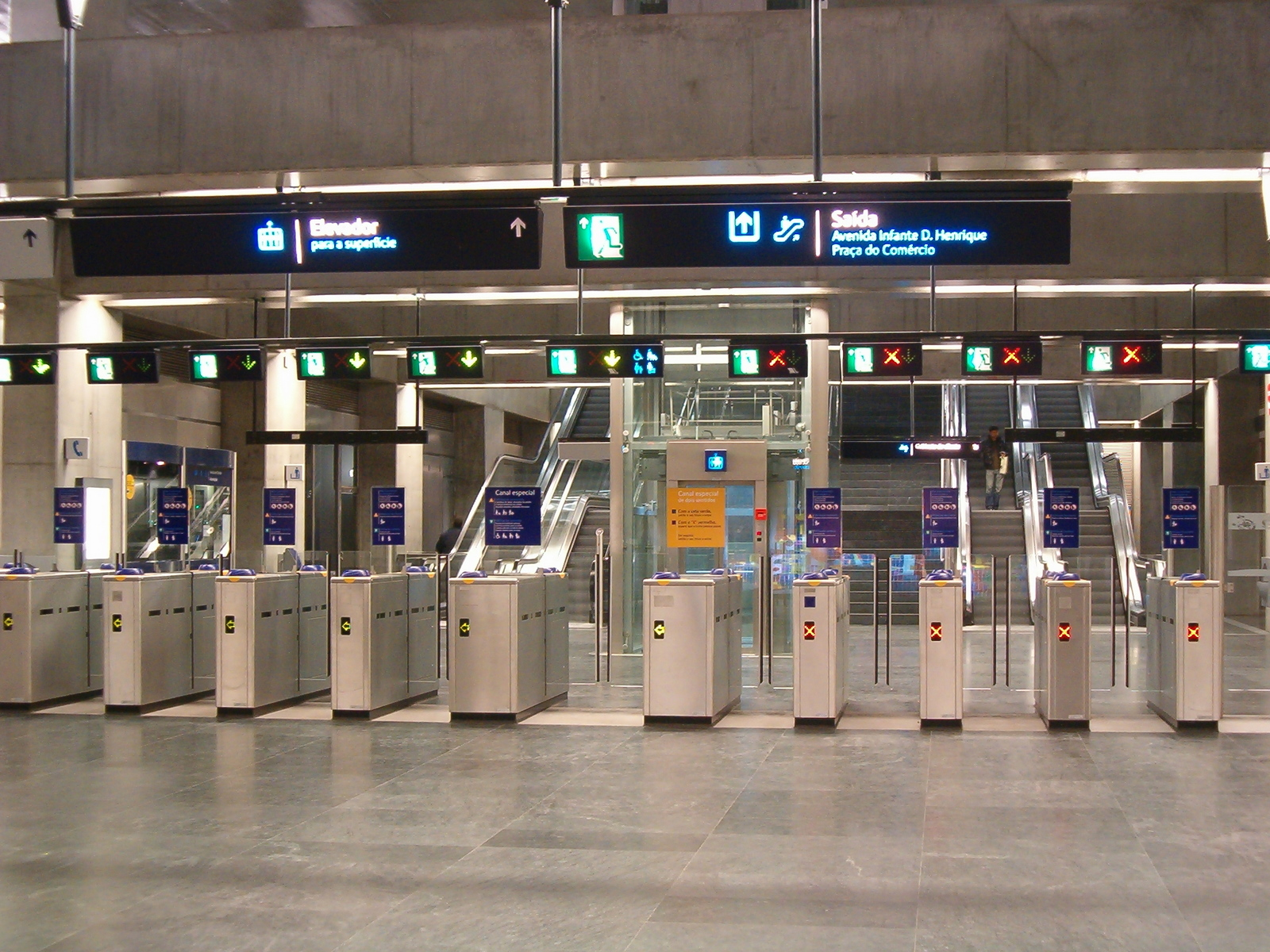 Metro station Terreiro do Paço (Lisboa)